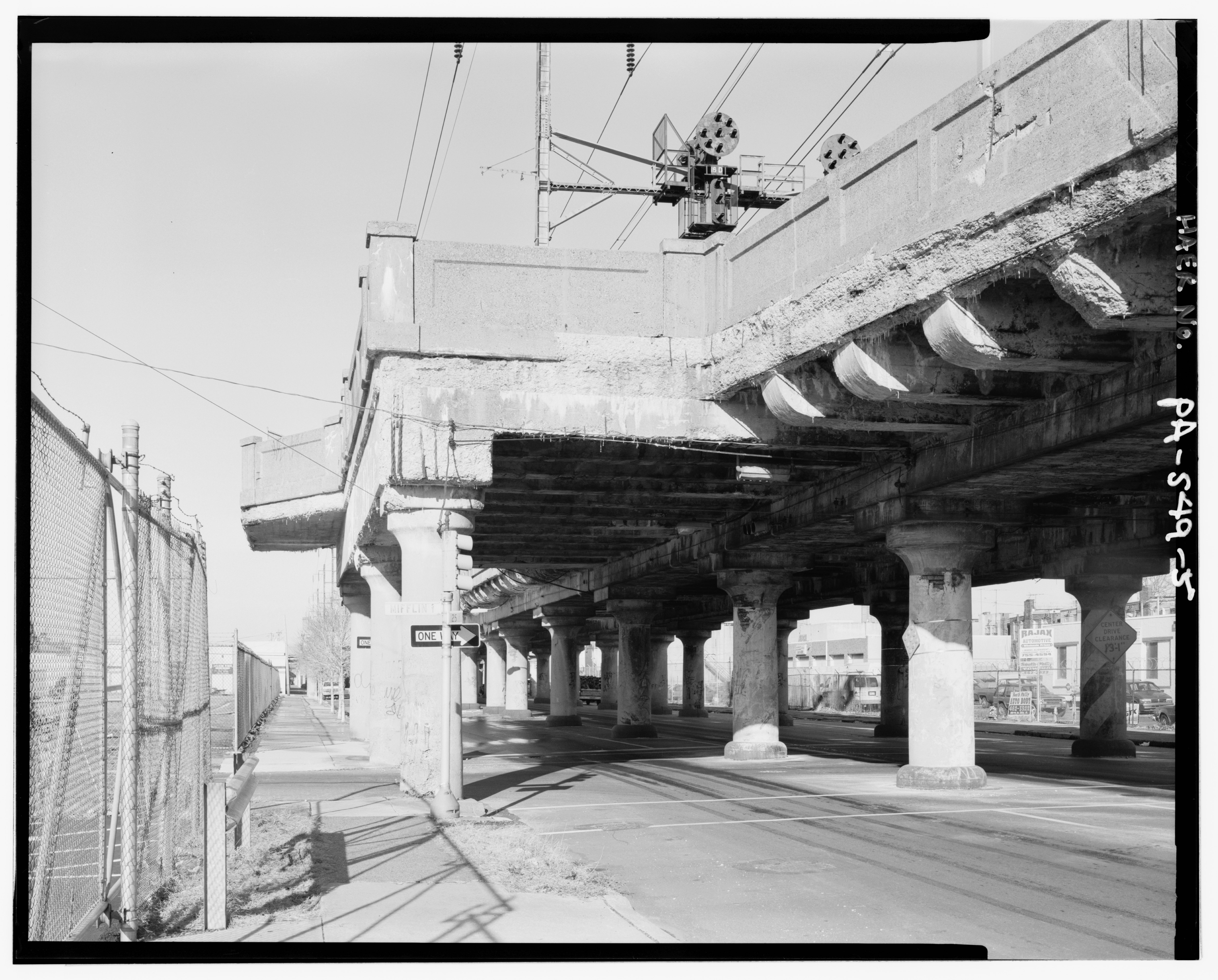 Widening on the 25th Street Elevated in Philadelphia, Pennsylvania. Such widenings were used for diverging routes serving factories along the route.